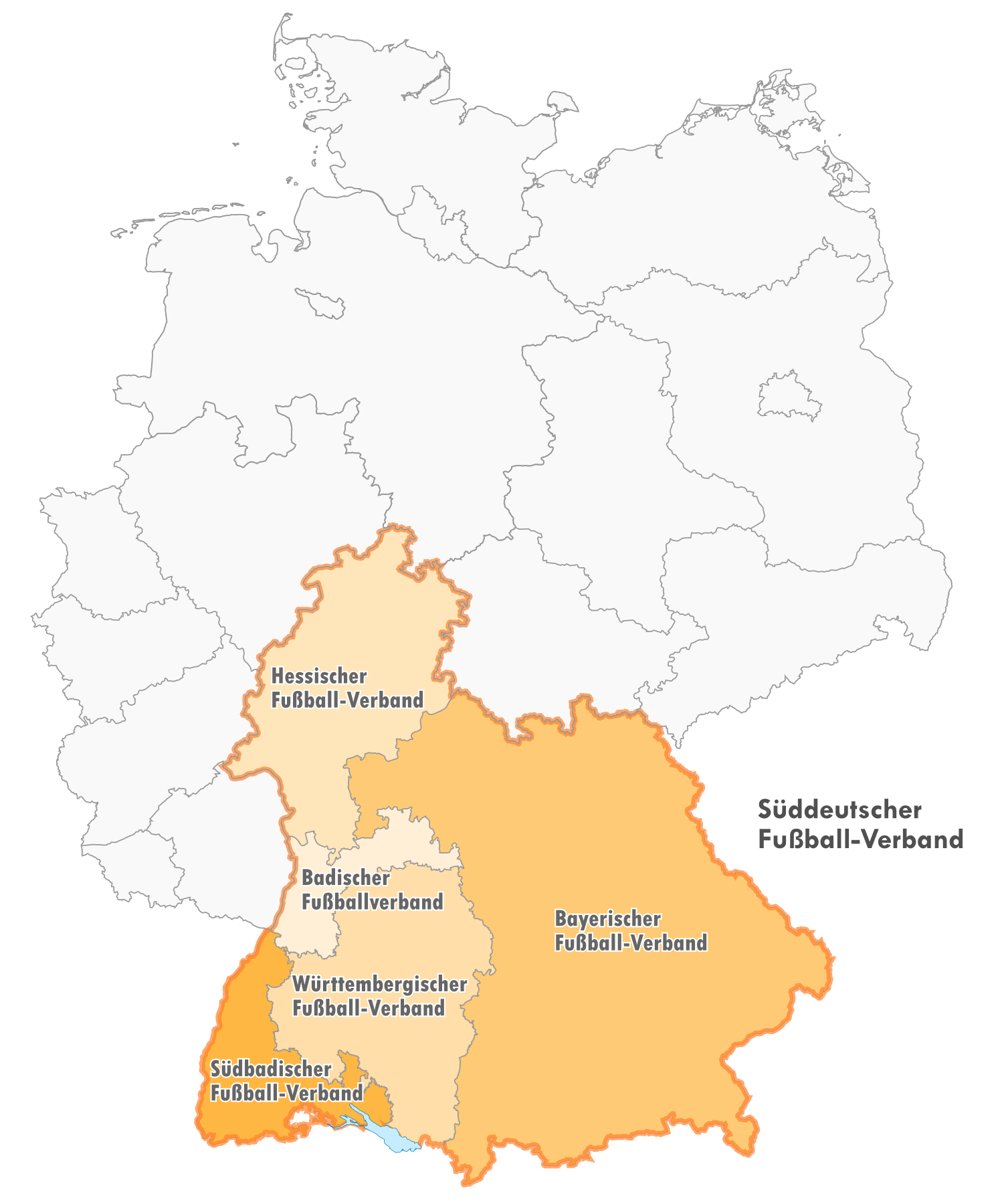 Map of regional soccer association of Süddeutschland, Germany